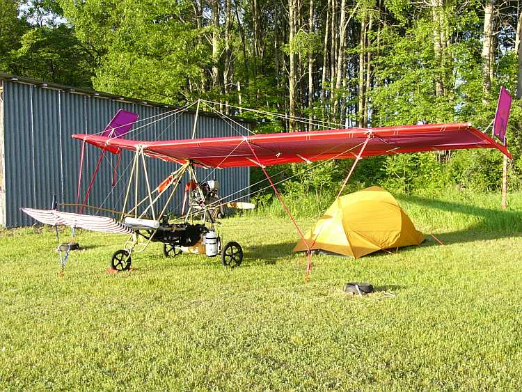 I took this photo of a DFE Ascender III-C in 2004.